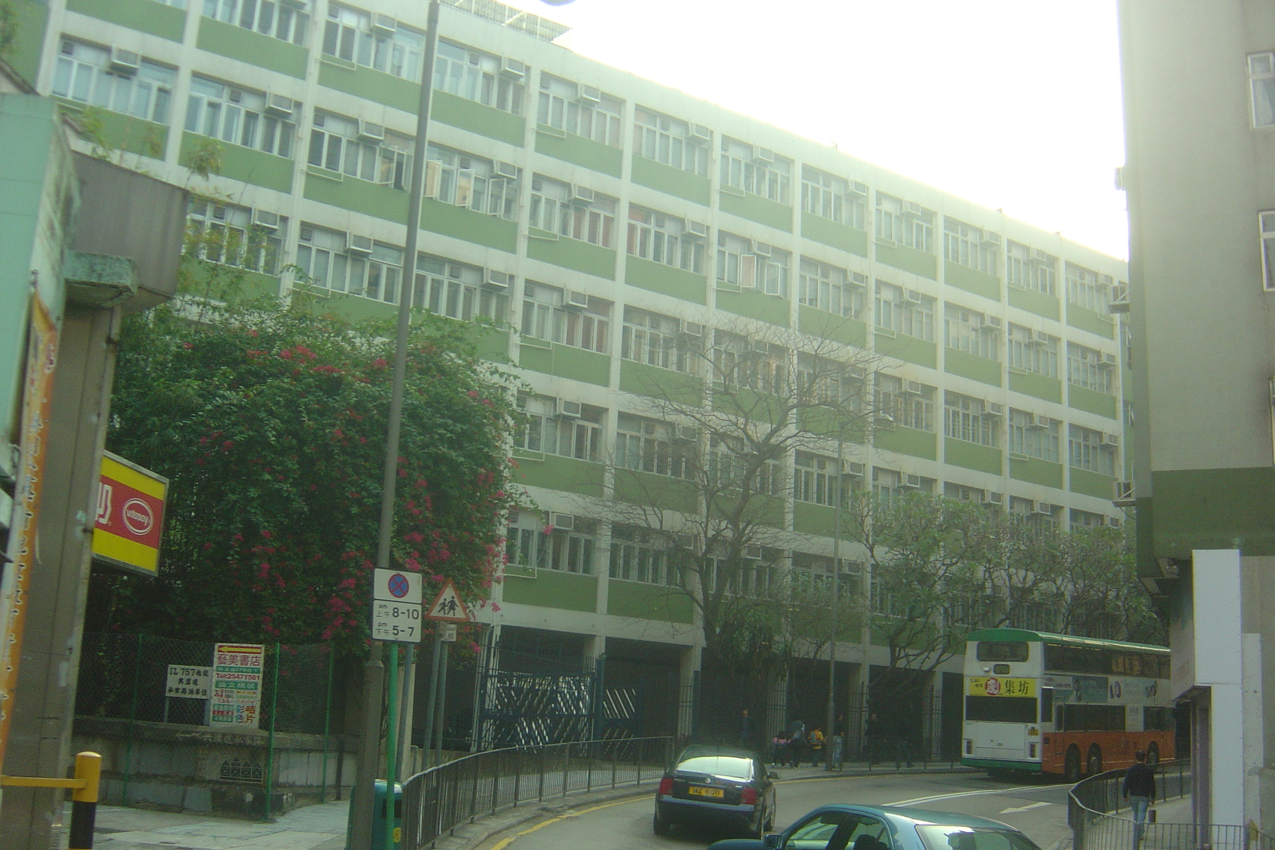 North Wing Classroom Block, St. Paul's College, Hong Kong